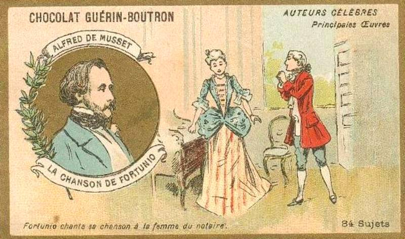 Chromographic card accompanying chocolates by Guérin-Bourton, series "Auteurs célèbres", with a picture of Alfred de Musset and a scene from his drama "Le Chandelier"